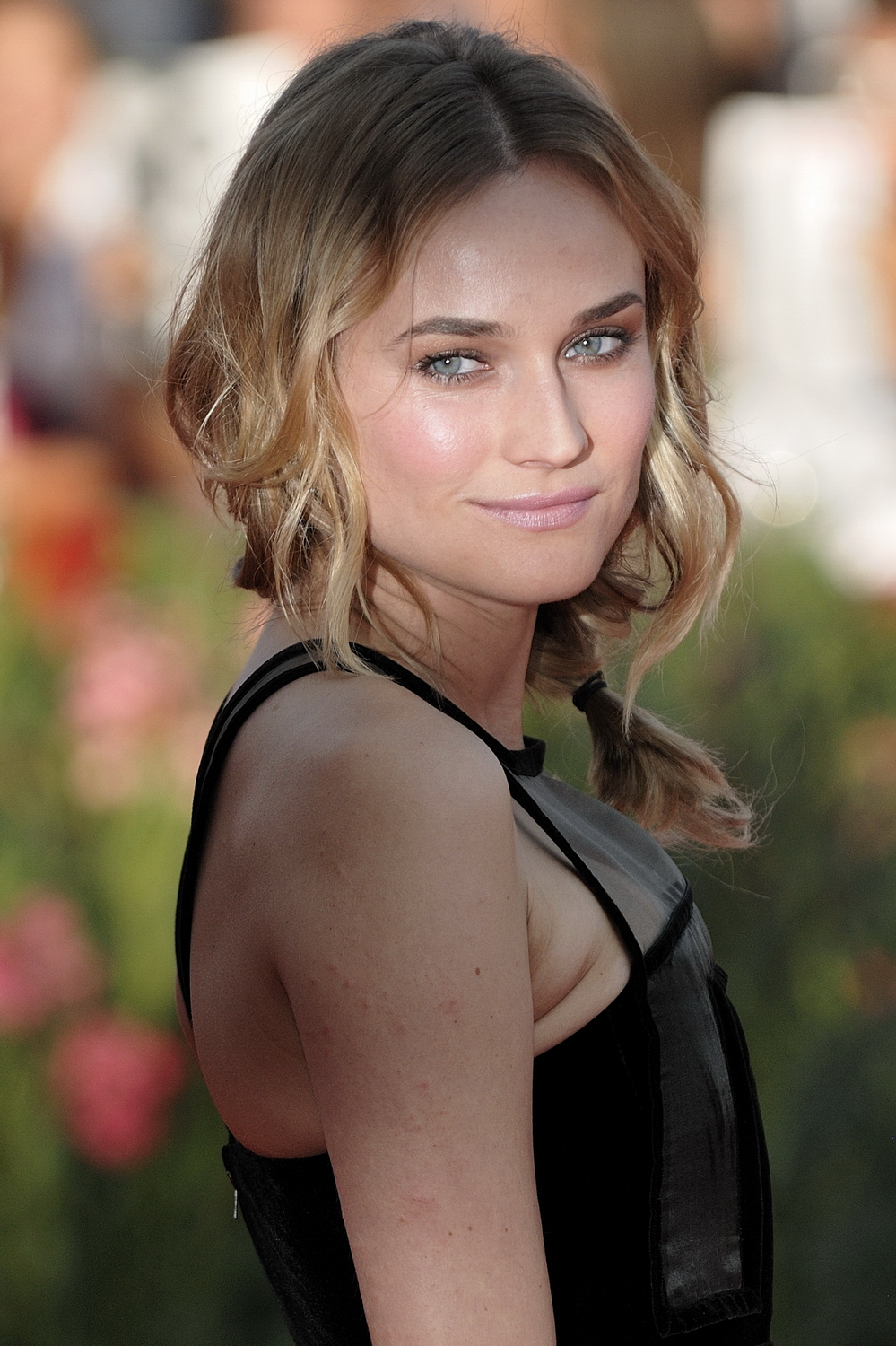 Diane Kruger at the 66th Venice International Film Festival.